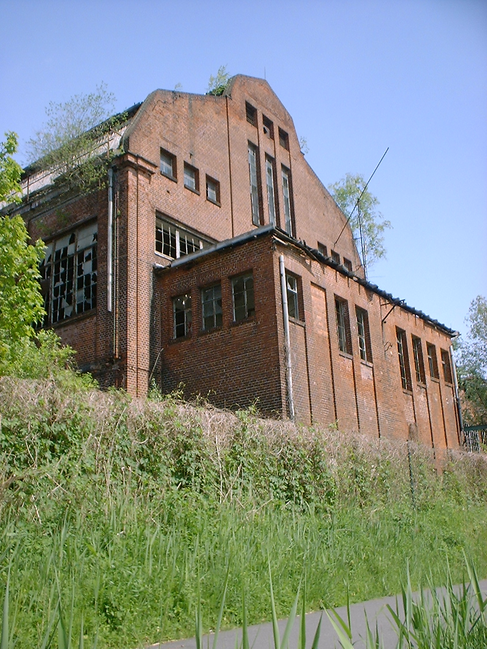 Facade of power station Heegermühle in Eberswalde, Germany